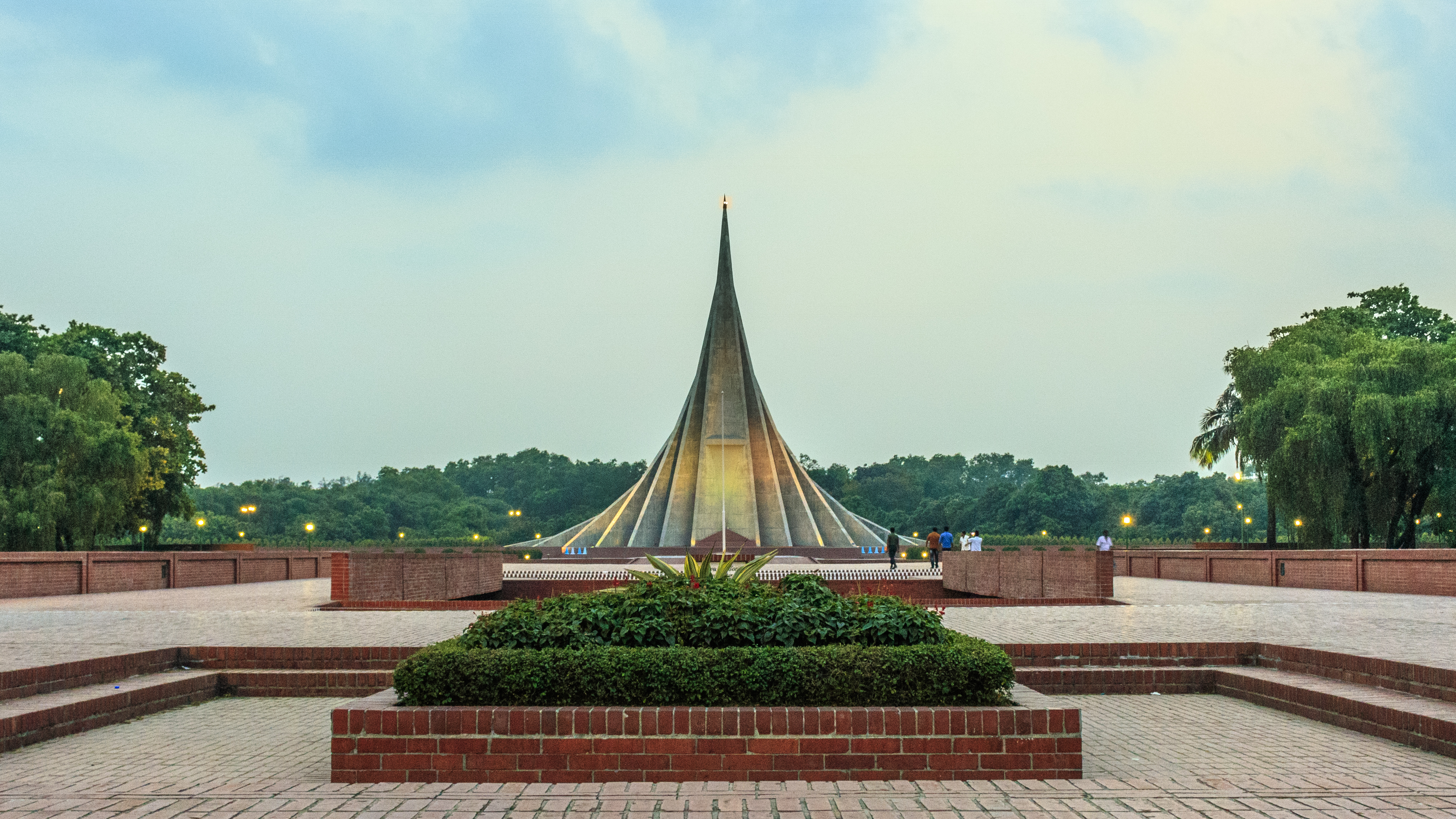 National Martyrs’ Memorial